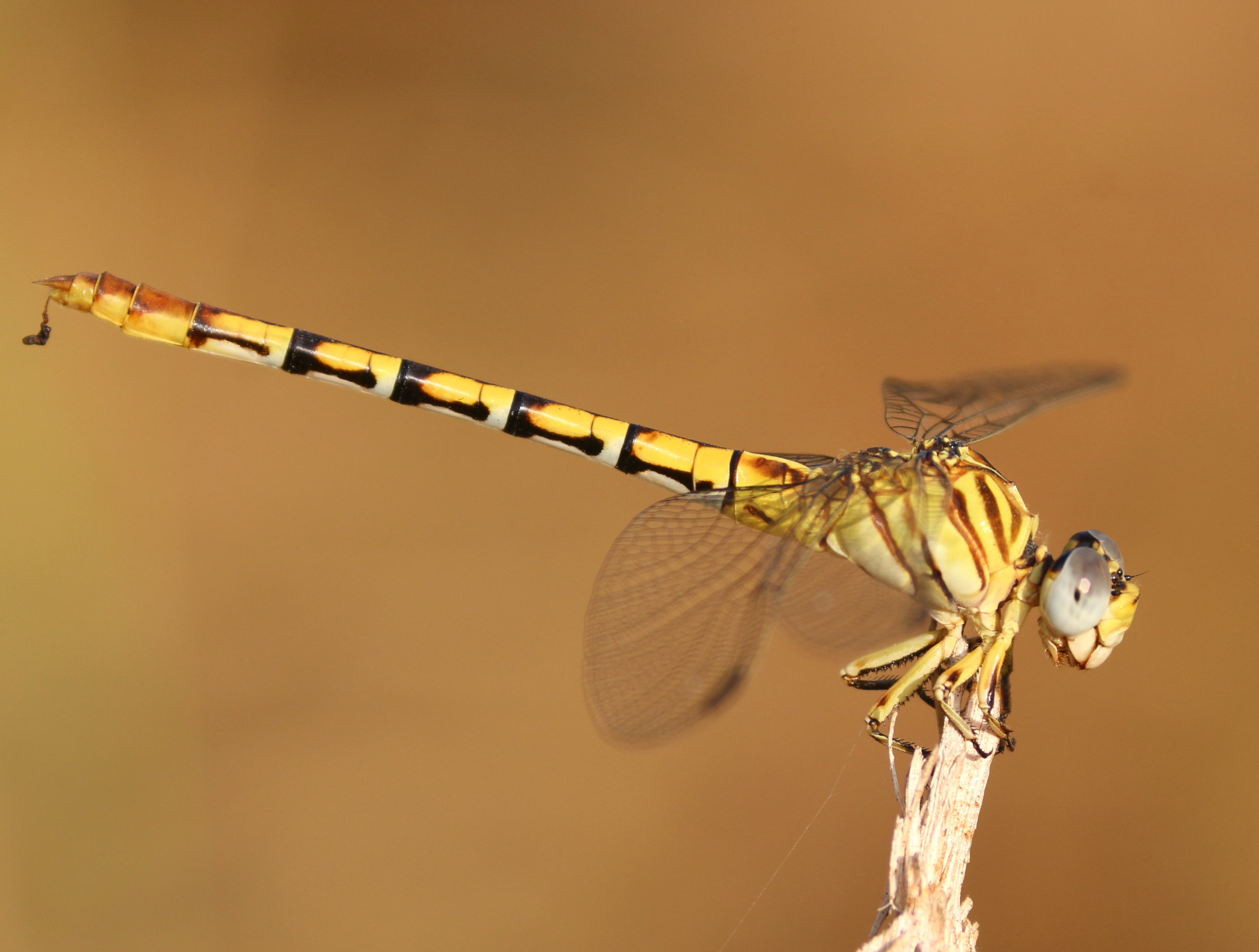 Paragomphus lineatus, female,ചൂണ്ടവാലൻ കടുവ , Lined Hooktail, Common Hooktail